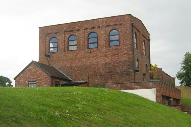 Converted mine building Called 'Winding Engine House' this building's one end of old industrial buildings in the old Somerset coalfield close to Pensford village.